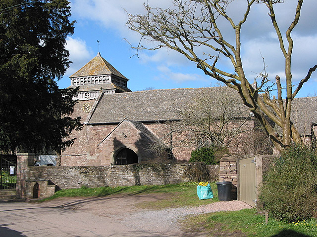 St. Bridget's Church, Skenfrith The church, which celebrated its 800th anniversary in 2007, lies at the centre of the village.